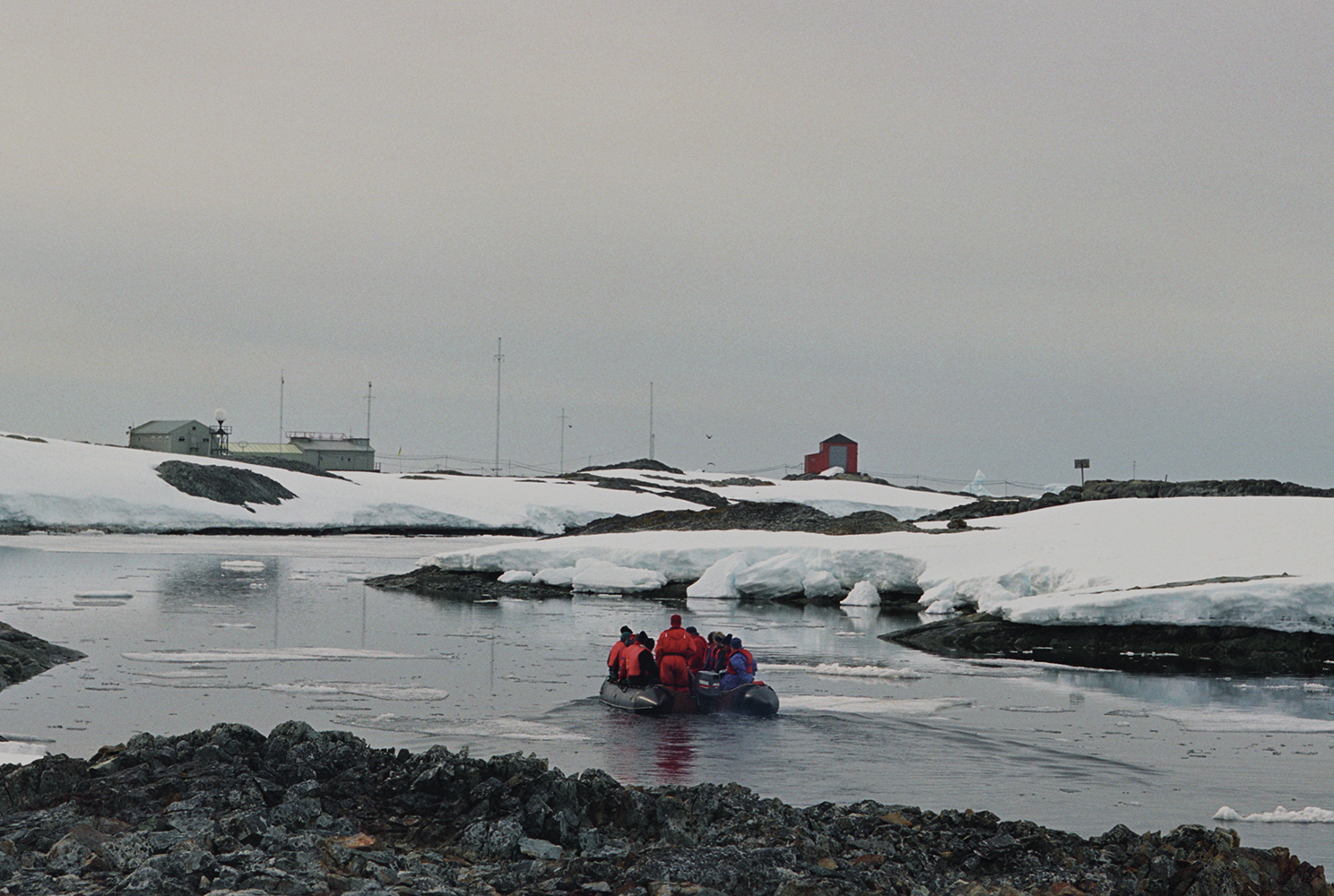 Ukrainian Antarctic Station - Vernadsky Research Base